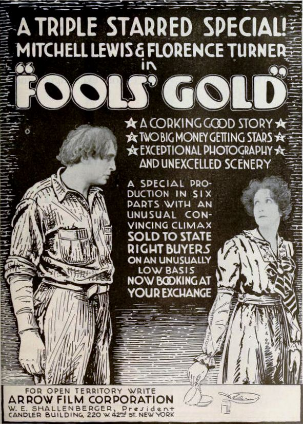 Ad for the American film Fool's Gold (1919) with Mitchell Lewis and Florence Turner, on page 1105 of the May 24, 1919 Moving Picture World.